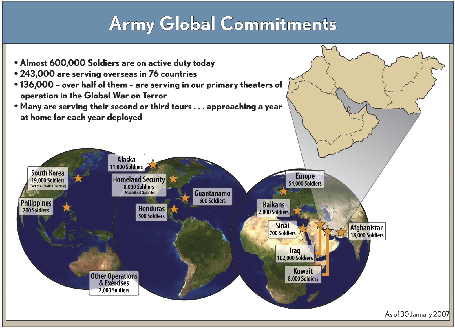 Map of major US Army commitments worldwide.